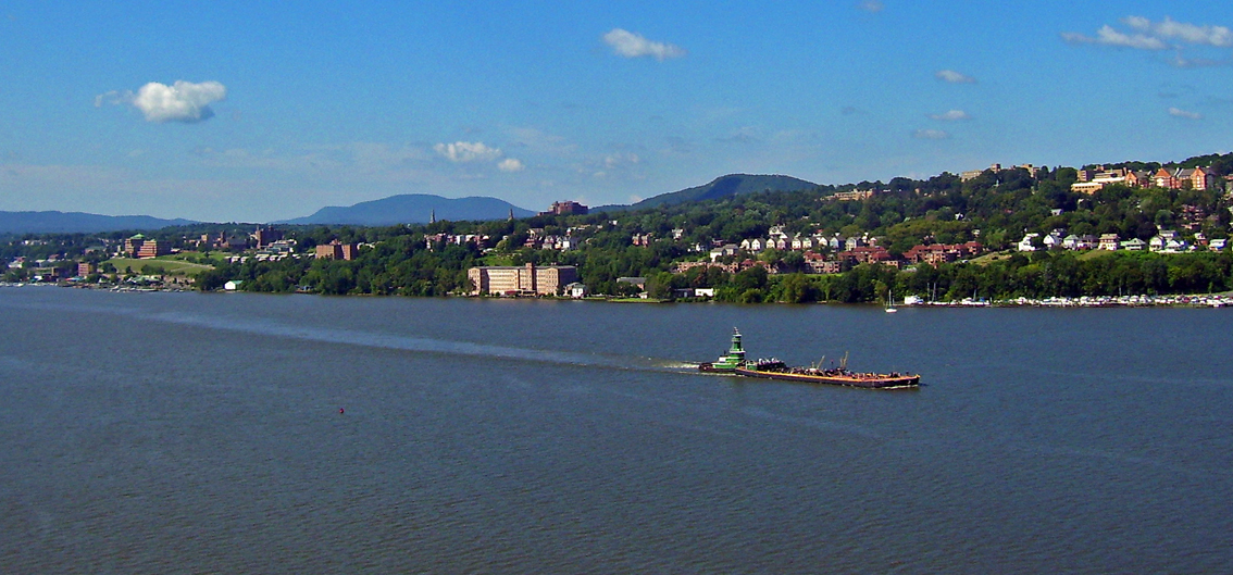 Photographed by Daniel Case 2006-08-07 from the walkway on the Newburgh-Beacon Bridge.